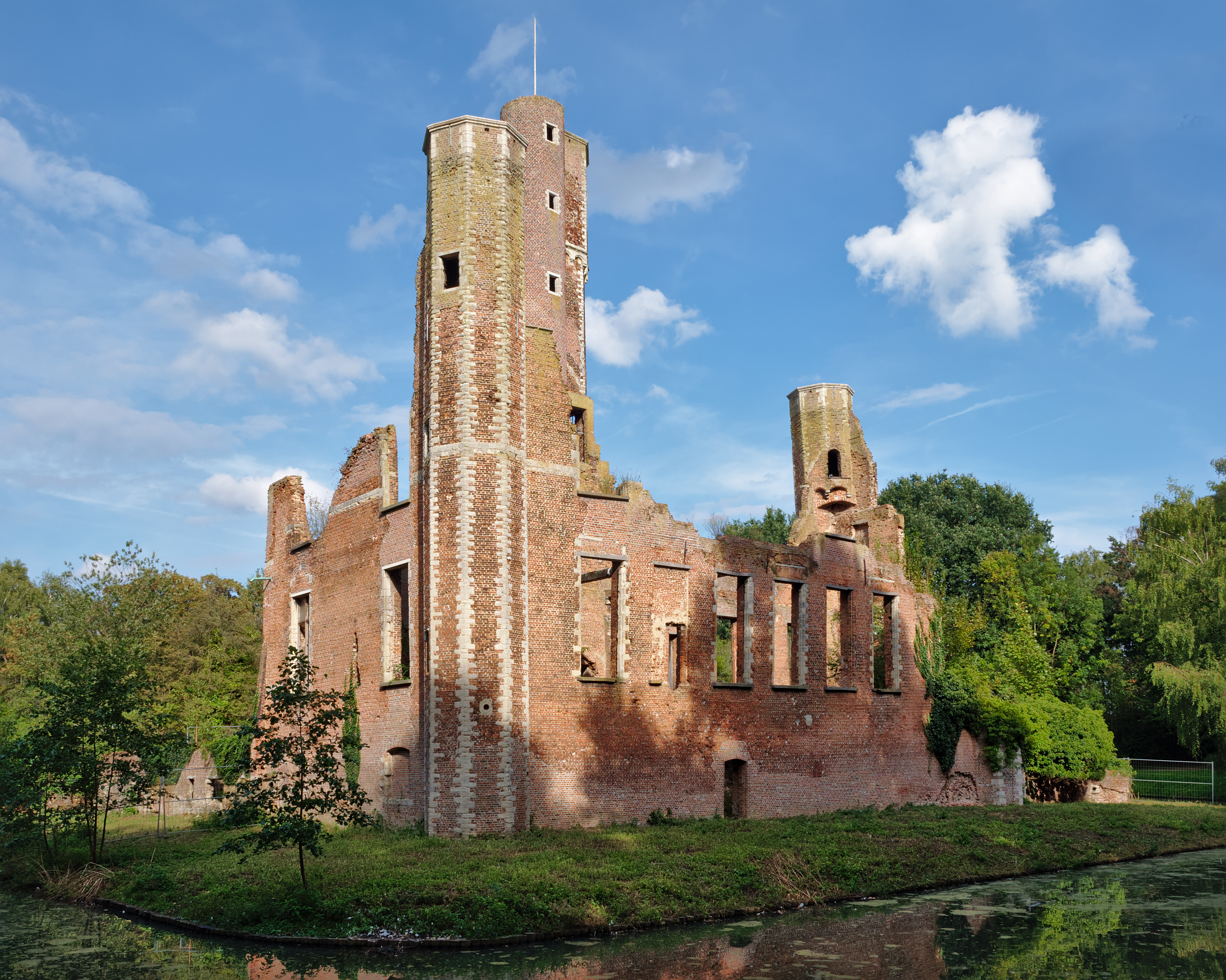 Kasteel Ter Elst in Duffel, Belgium This photo of immovable heritage has been taken in the Flemish Region